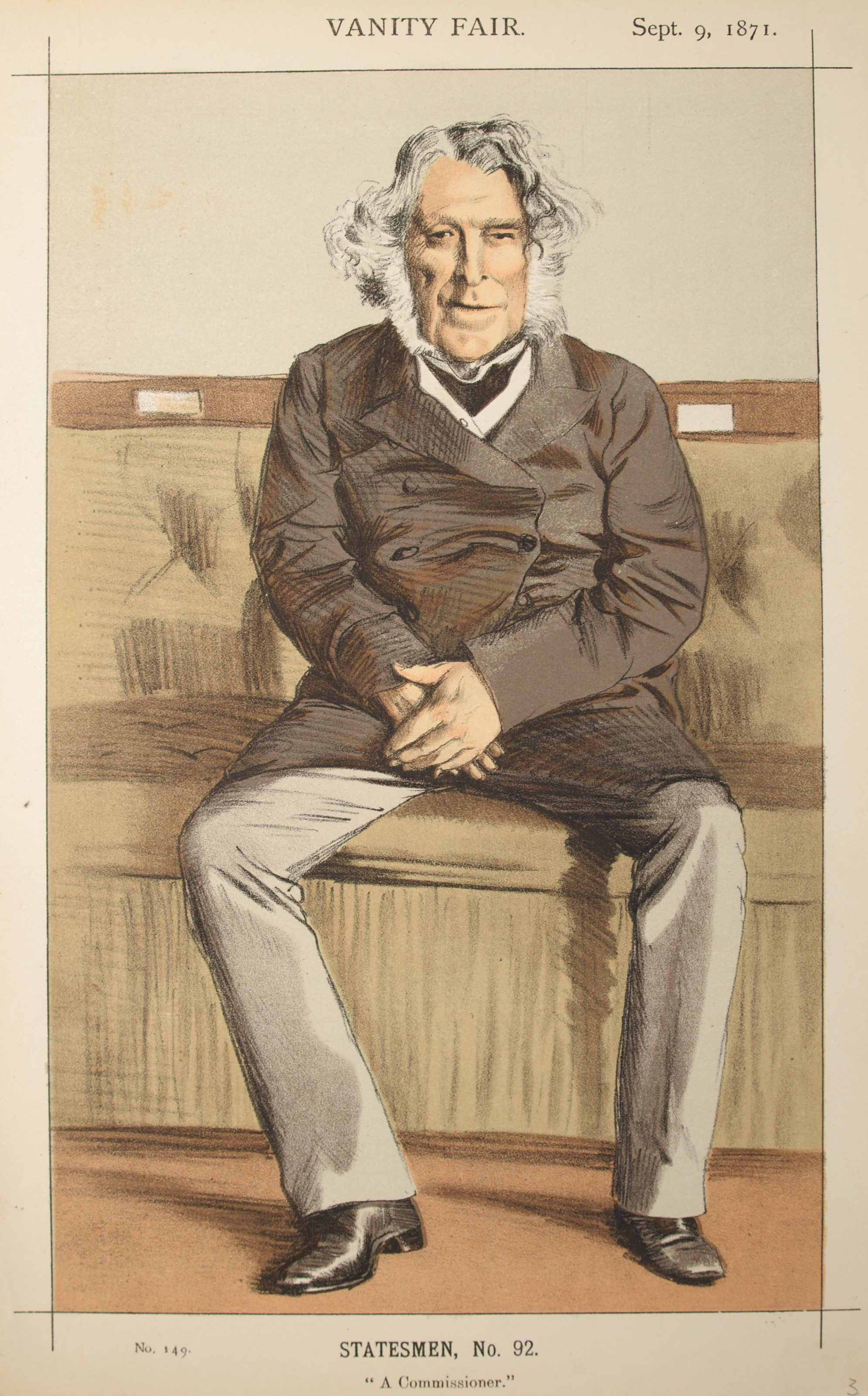 Statesmen No.92: Caricature of The Rt Hon Russell Gurney (1804-1878), MP for Southampton. Caption reads: "A Commissioner."